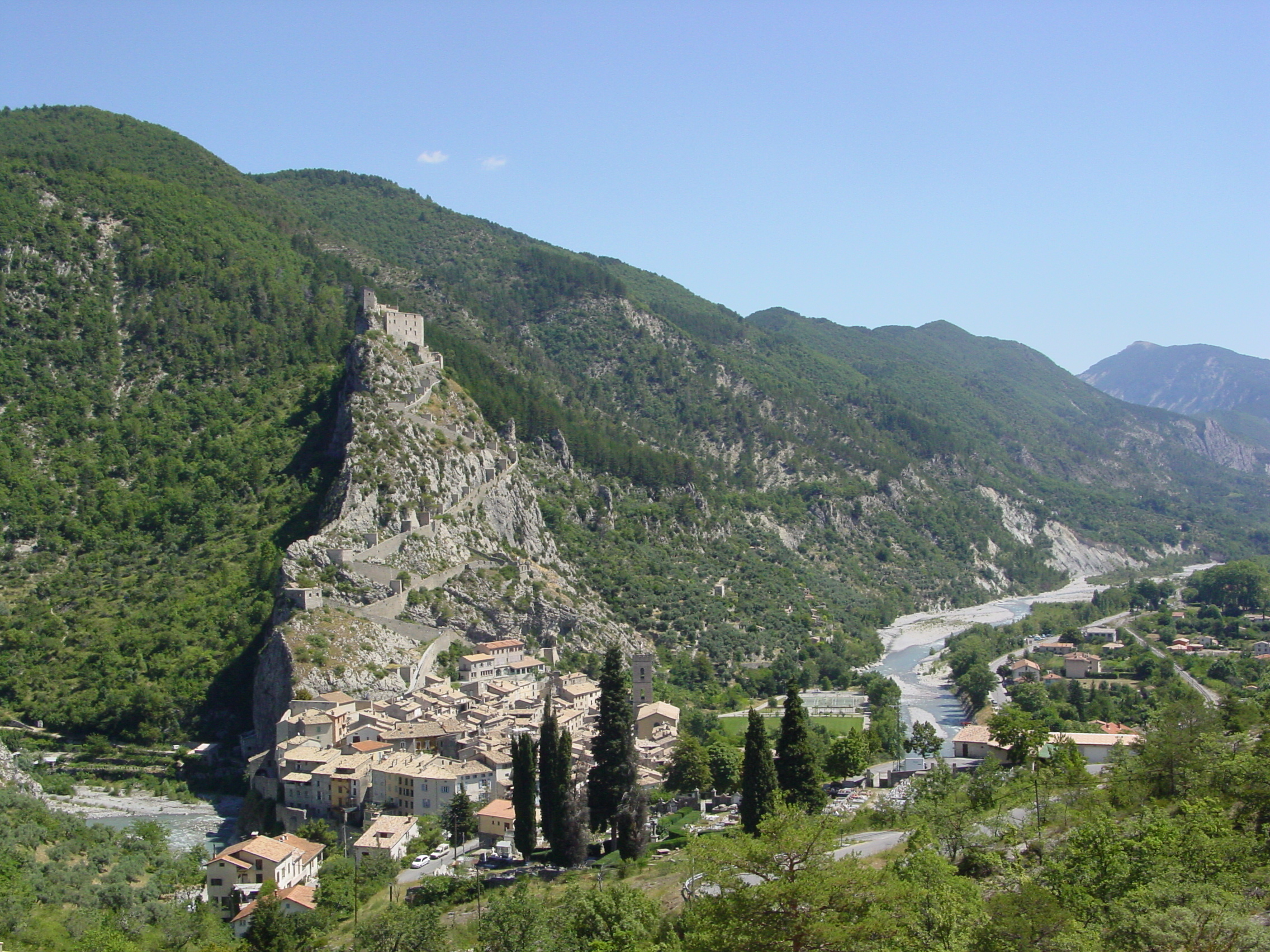 Entrevaux